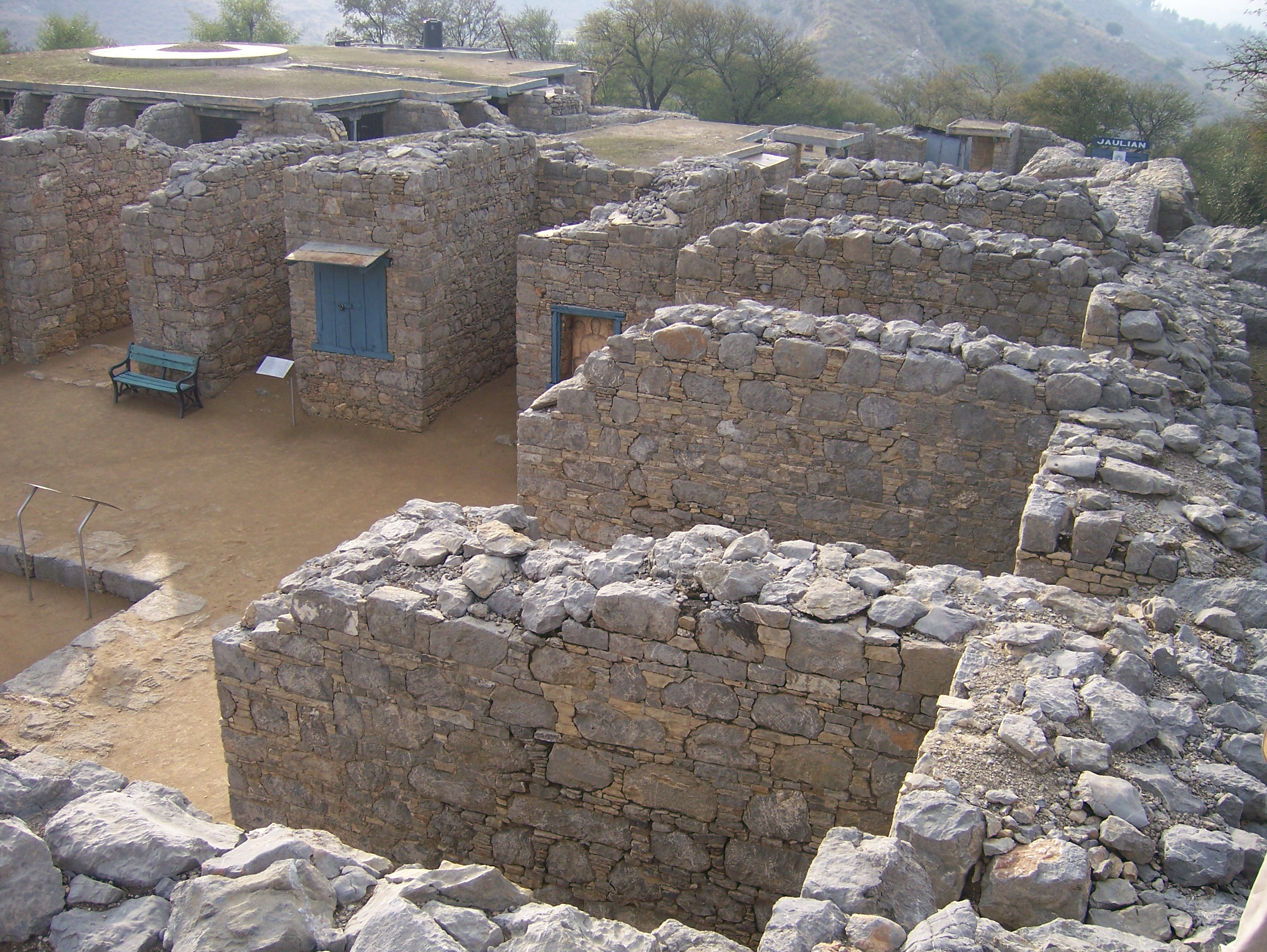 A view of the stone wall ruins of the Buddhist monastery at the Jaulian archaeological site. Located in ancient Taxila — in Punjab Province, Pakistan.